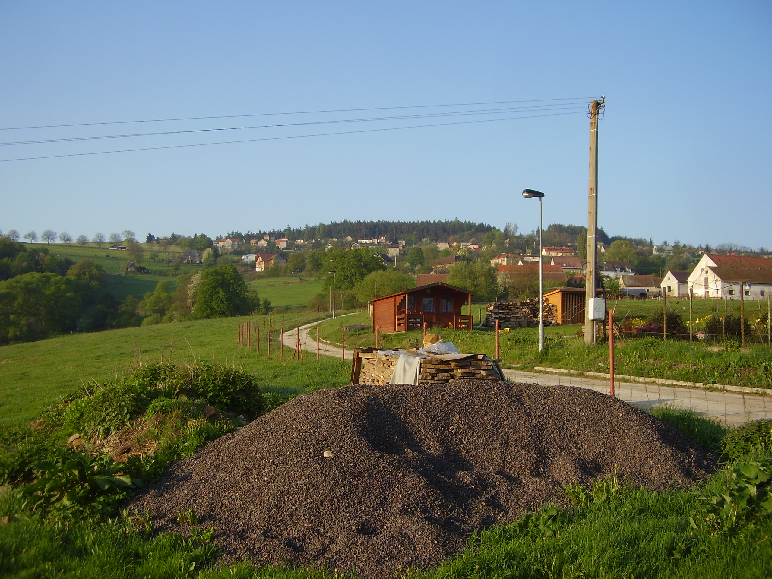 View at Zdejcina, Zdejcina, Beroun District, Czech Republic